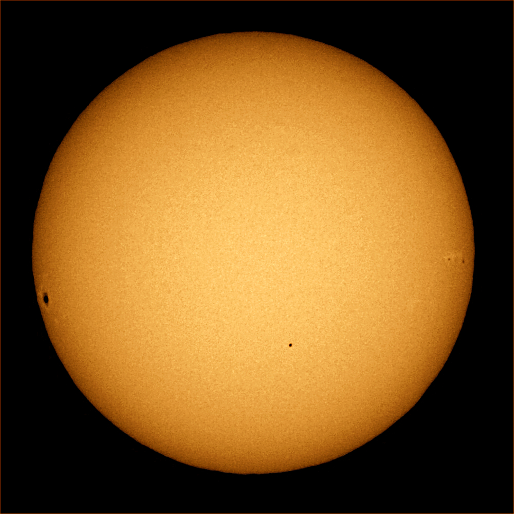 The Historical Transit of Mercury on November 8, 2006. Please note that sunspot #923, which is just below the equator at the left-hand side, is much bigger than Mercury is. You could also see two more sunspots at the right-hand side at the equator. You could see Mercury as a small black dot in the lower middle of the solar disk. Limb darkening is clearly seen at the image. The picture was taken with a white filter and prime focus. The grainyness in the Sun is called granulation.